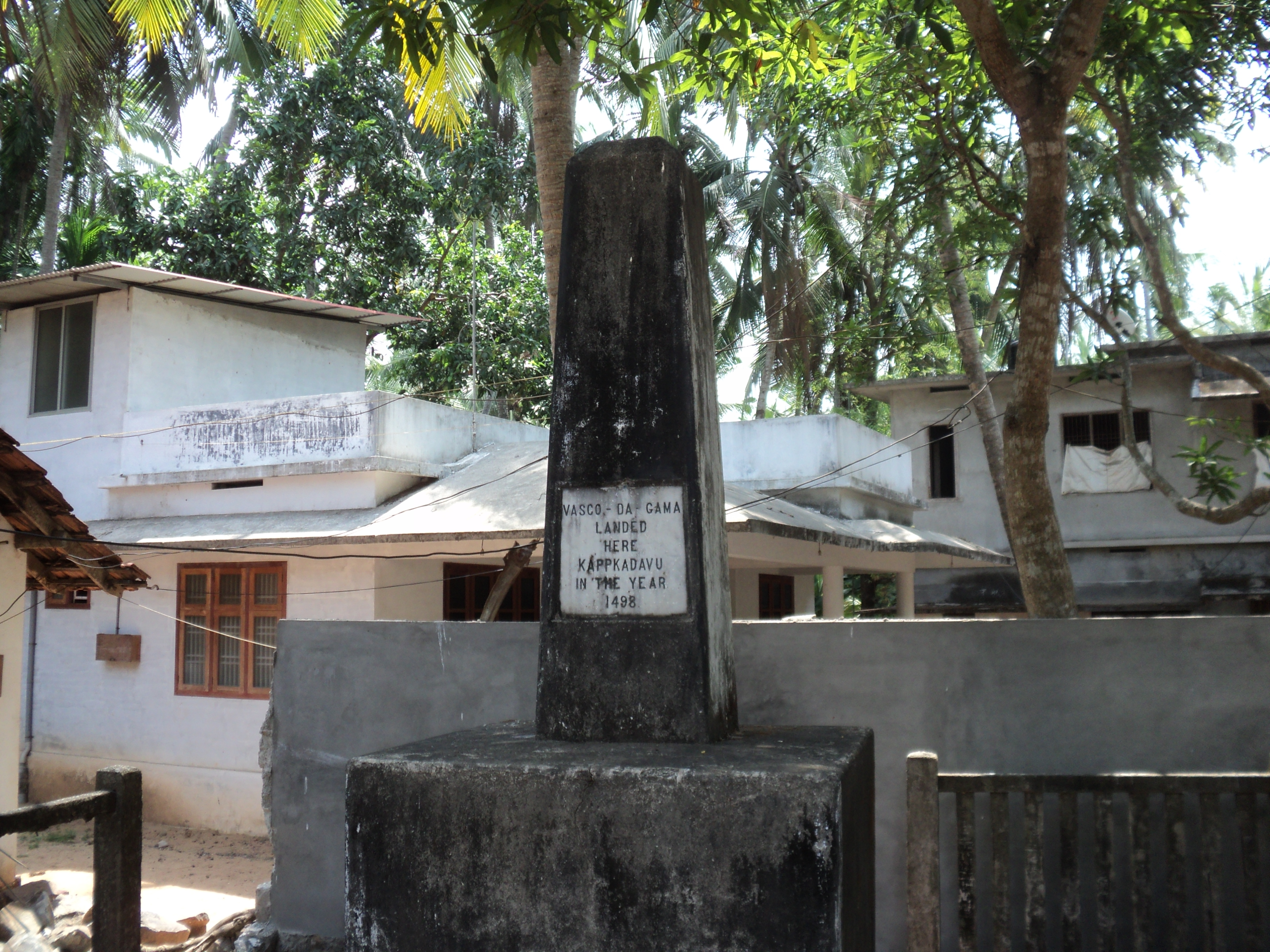 Monument at Kappad, that commemorates Vasco da Gama's landing here in 1498